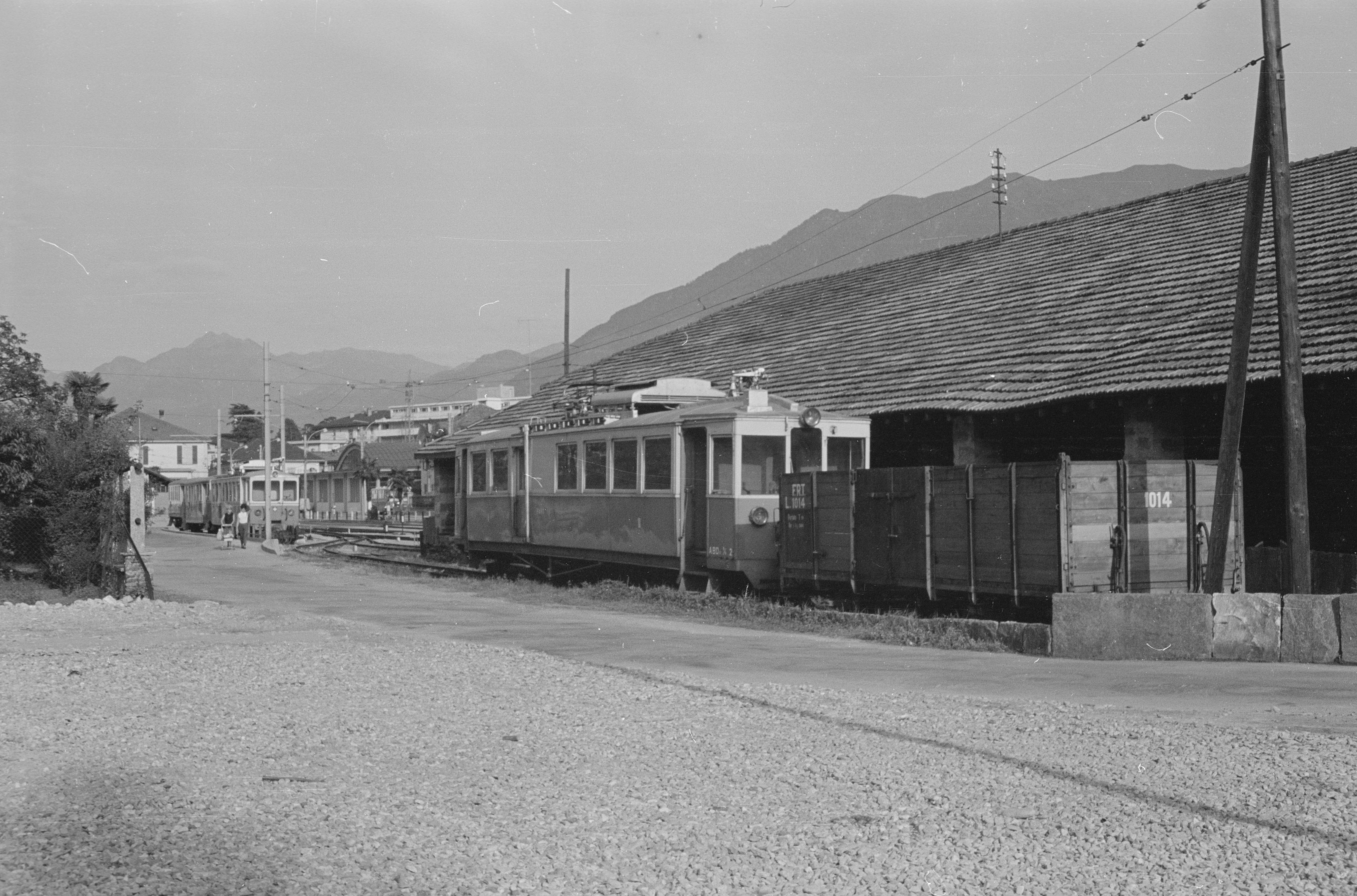 FART ABDe 4/4 2 and FART L 1014 at Locarno S. Antonio railway station.